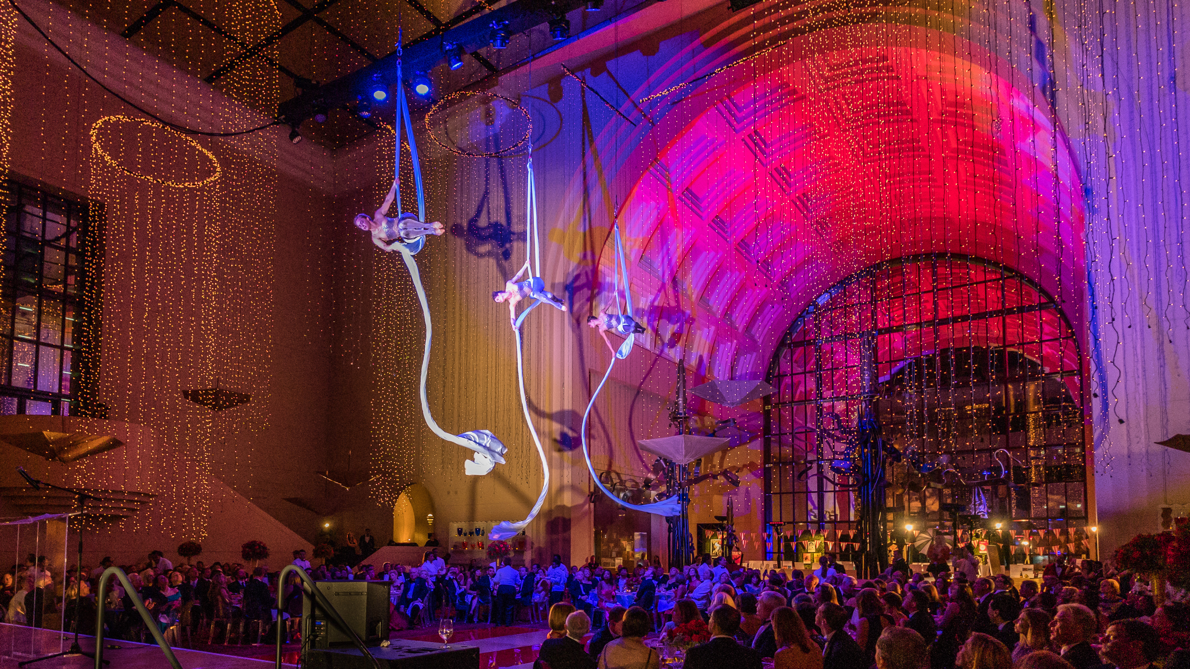 Blue Lapis Light performance in the Grand Foyer of the Wortham Center for the Houston (Texas, USA) Society for the Performing Arts 50th anniversary party.